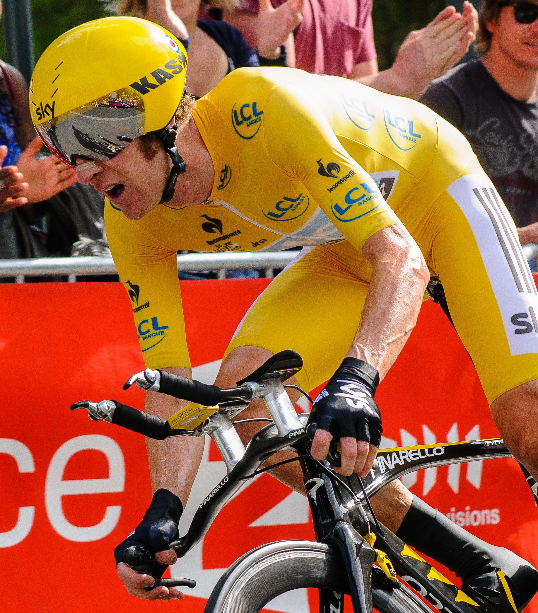 Bradley Wiggins en route to winning the Stage 19 Time trial, confirming his victory in the 2012 Tour de France